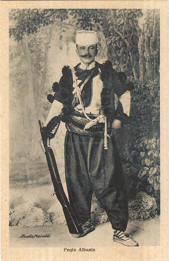 Photograph of an Albanian man from the Mati region by Pjetër Marubi.